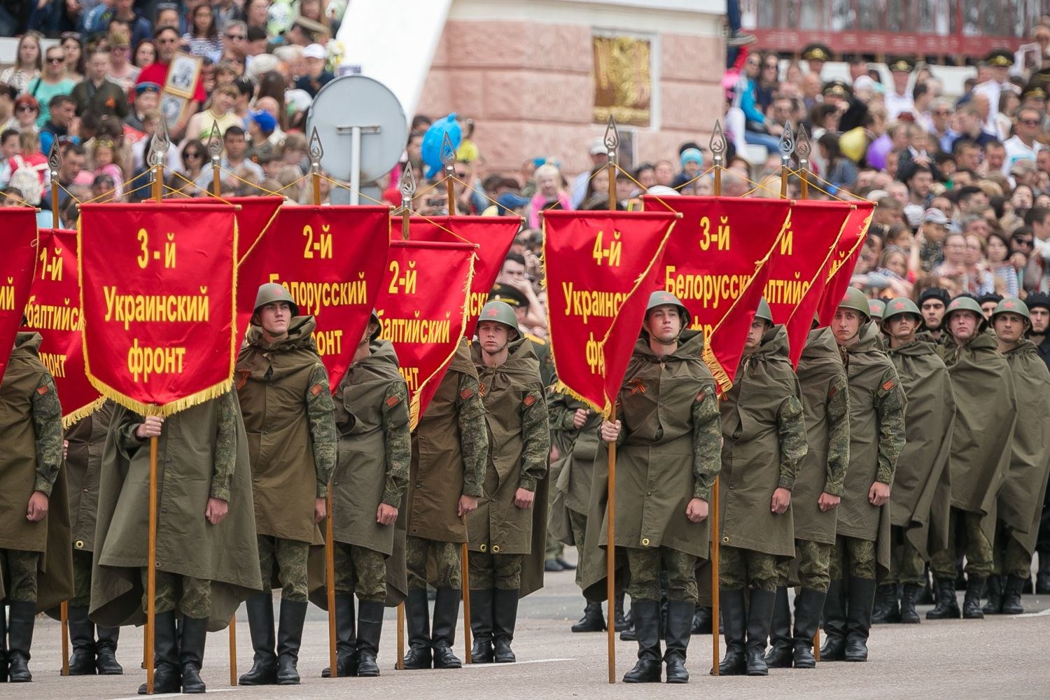 The ceremonial events devoted to the 73rd anniversary of the Great Victory in Tiraspol.